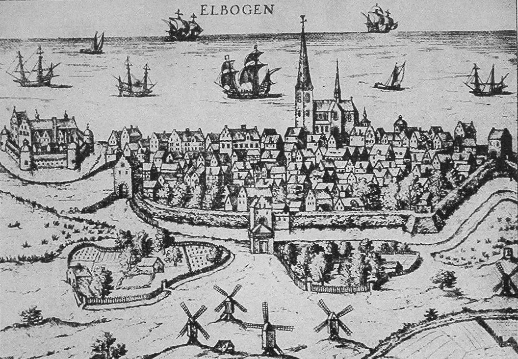 Image of Malmö (Elbogen) in Scania, Southern Sweden First printed in an old book (G. Braun & F. Hogenberg) from 1588. This faksimile can be found in several books of Malmö.